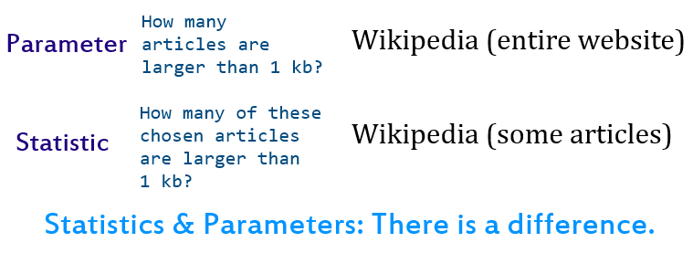 The difference between the word statistic and the word parameter.